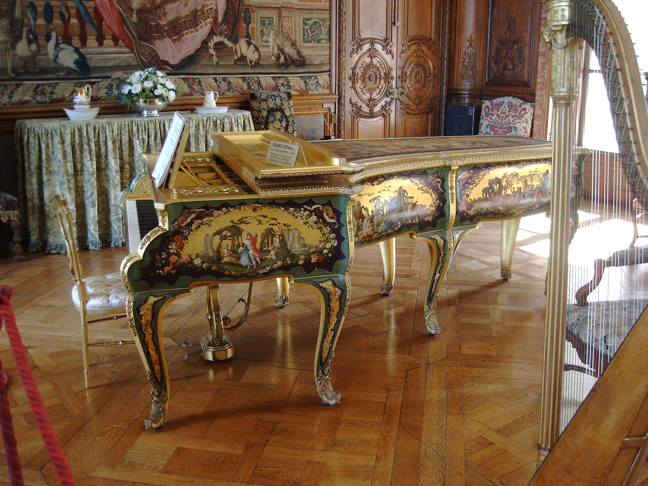 Château de Bizy, Vernon, Haute-Normandie.